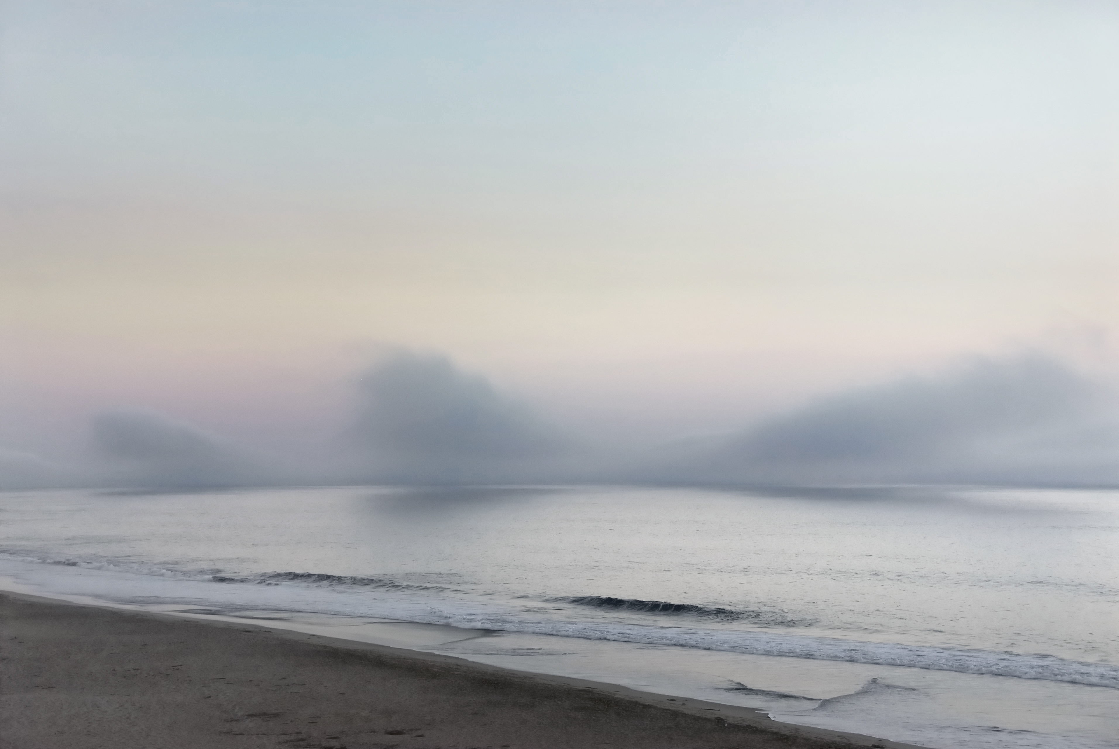 Marine fog rolls in Half Moon Bay, California.